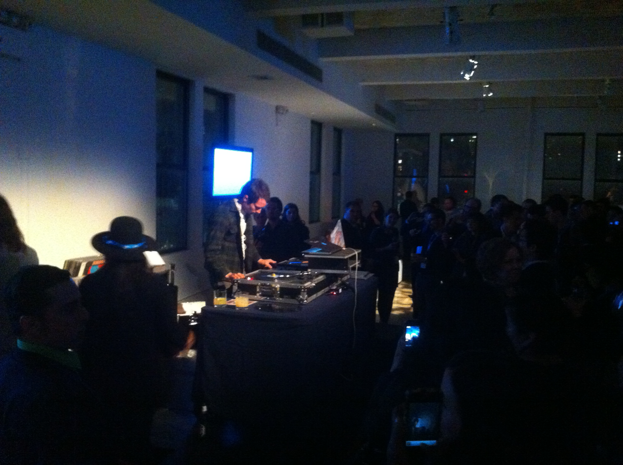 Elijah Wood DJ'ing at the box launch party in Hell's Kitchen, NY.